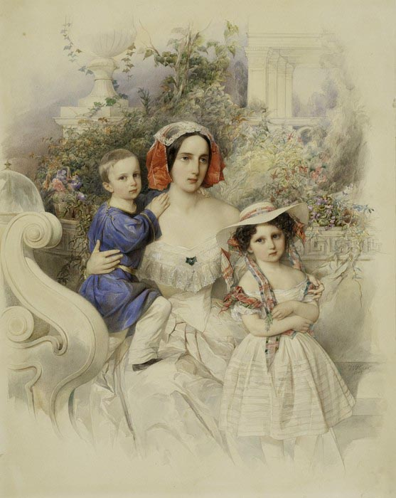 Portrait of Maria Nikolaevna and her children